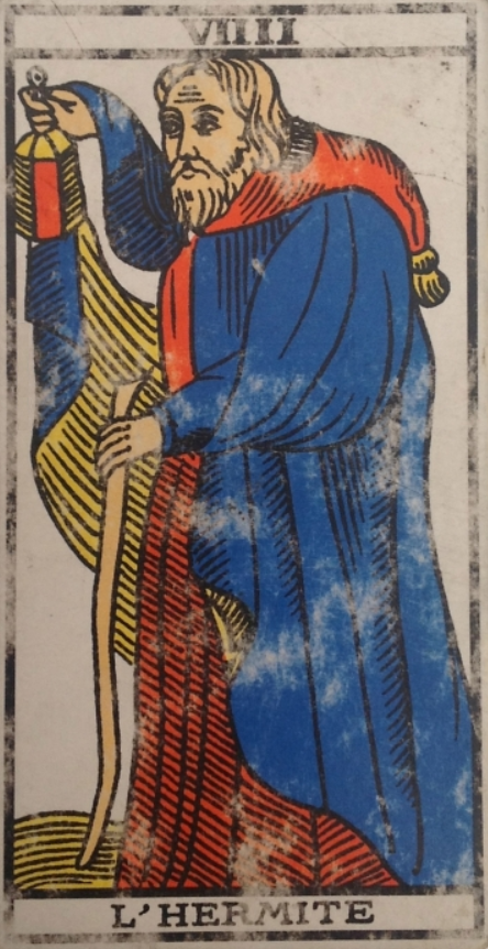 Ninth card after the tarot deck of Jean Dodal of Lyon, for the Tarot of Marseilles deck from 1701-1715.